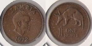 1 ngwee 1972